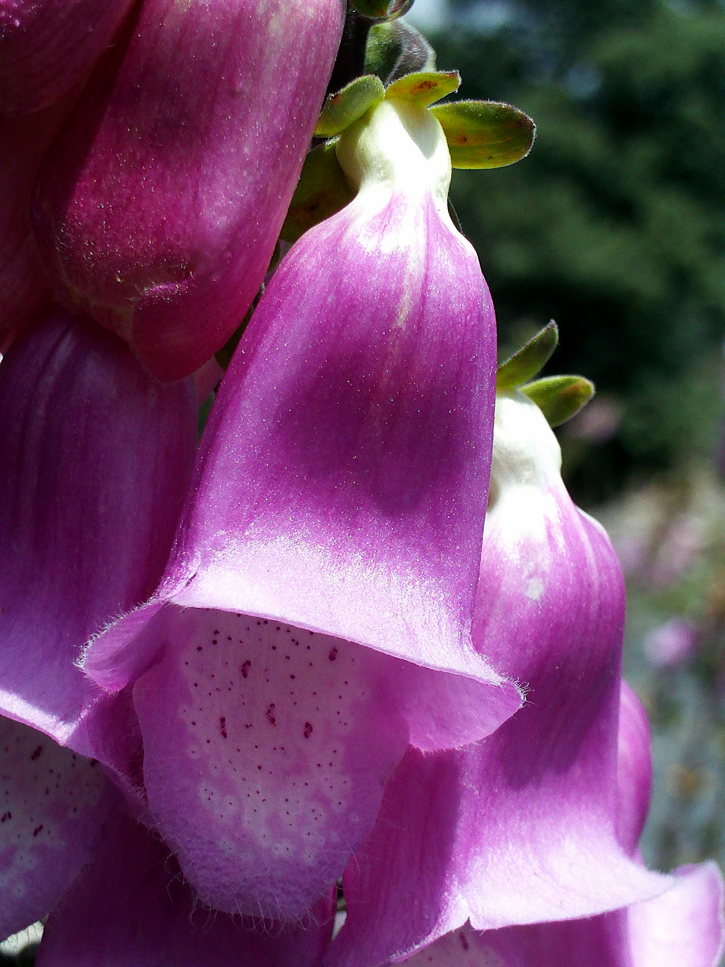 Digitalis mariana Flower Closeup in Sierra Madrona, Spain